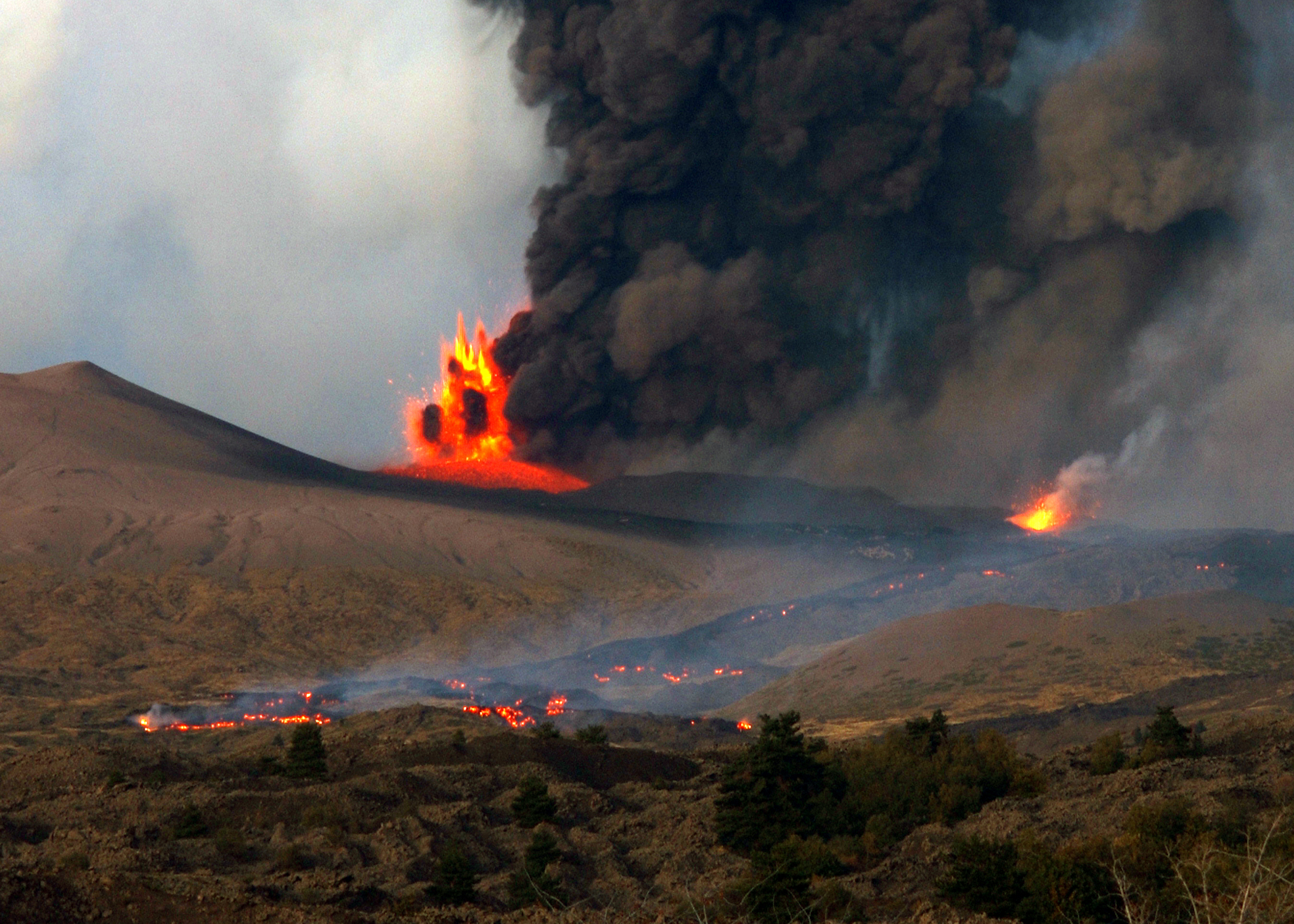 Sicily (Oct. 28, 2002) — On the evening after the initial eruption of Mt. Etna on the Italian island of Sicily, U.S. Navy photographer Richard W. Williams captures this image of a river of lava flowing down the side of the volcano. Dark clouds of pyroclastic ash from the eruption stretched as far as Africa this week and were visible from space during continued volcanic activity. Experts indicate the earthquakes felt subsequent to the initial eruption were not necessarily related to Etna's rumblings and were optimistic that the lava flows would soon be brought under control.